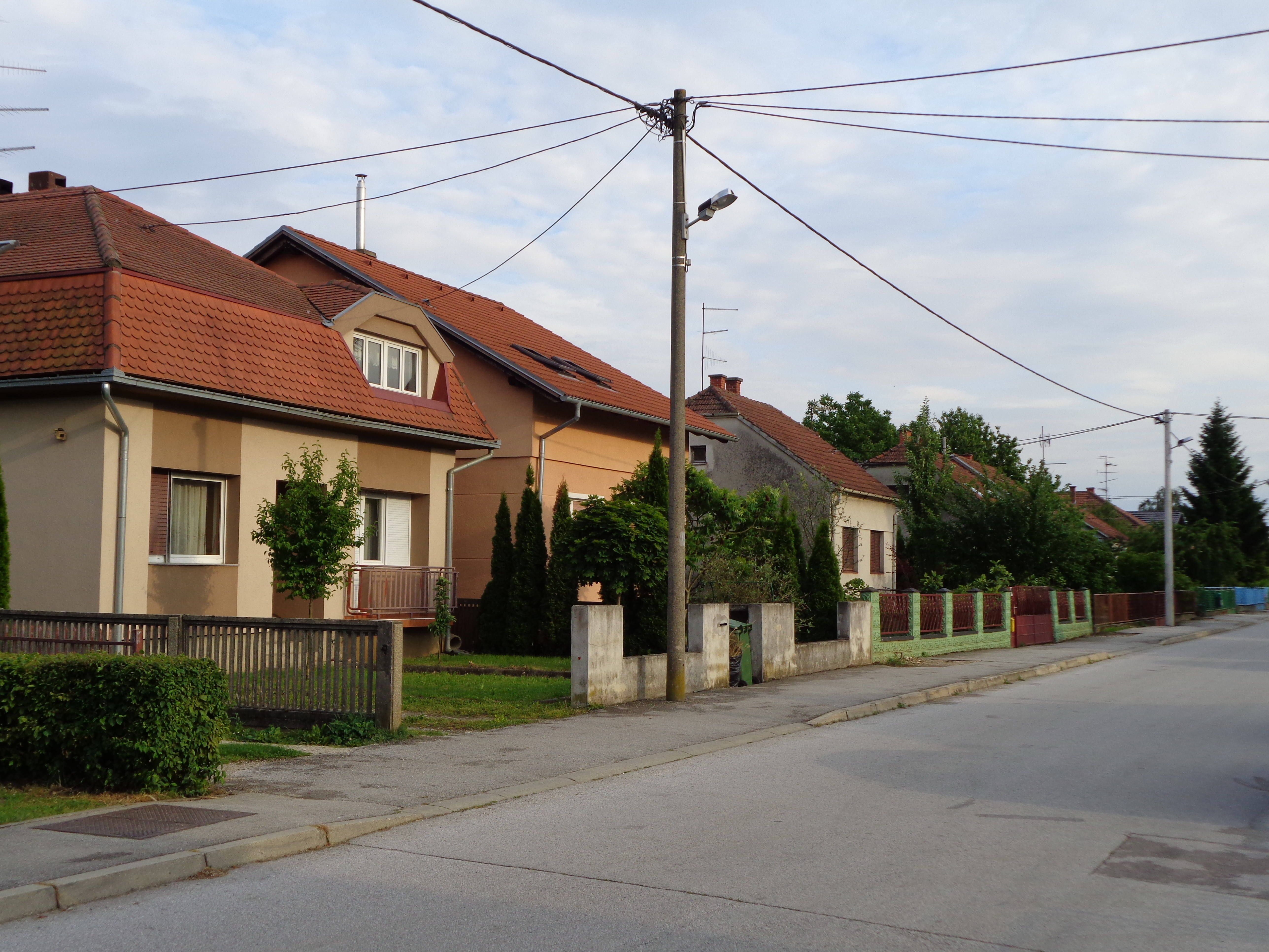 The Town of Mursko Središće, Croatia - Vladimir Nazor Street, east sideHrvatski: Grad Mursko Središće, Hrvatska - Ulica Vladimira Nazora, istočna strana